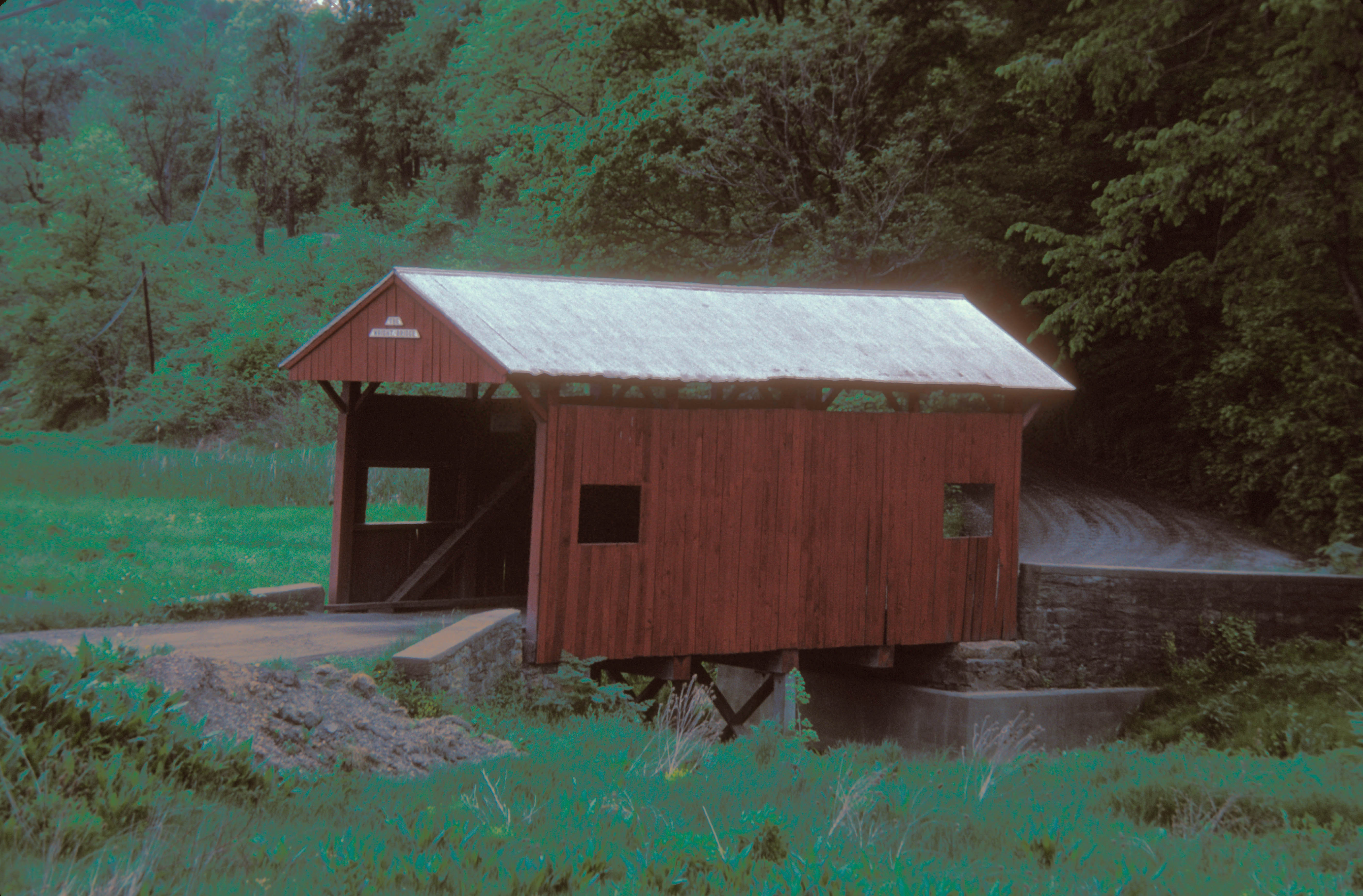 WRIGHT CB OVER N. BRANCH OF PIGEON CREEK; 24’ KING